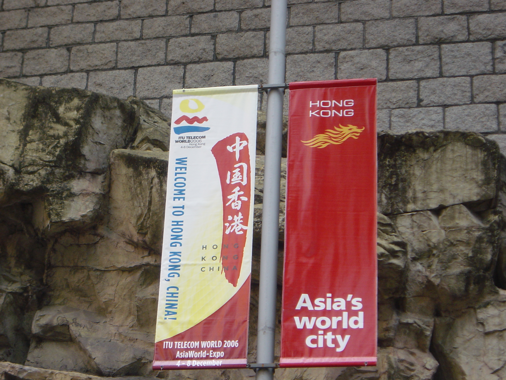 2006年世界電信展的宣傳旗號。ITU Telecom World 2006